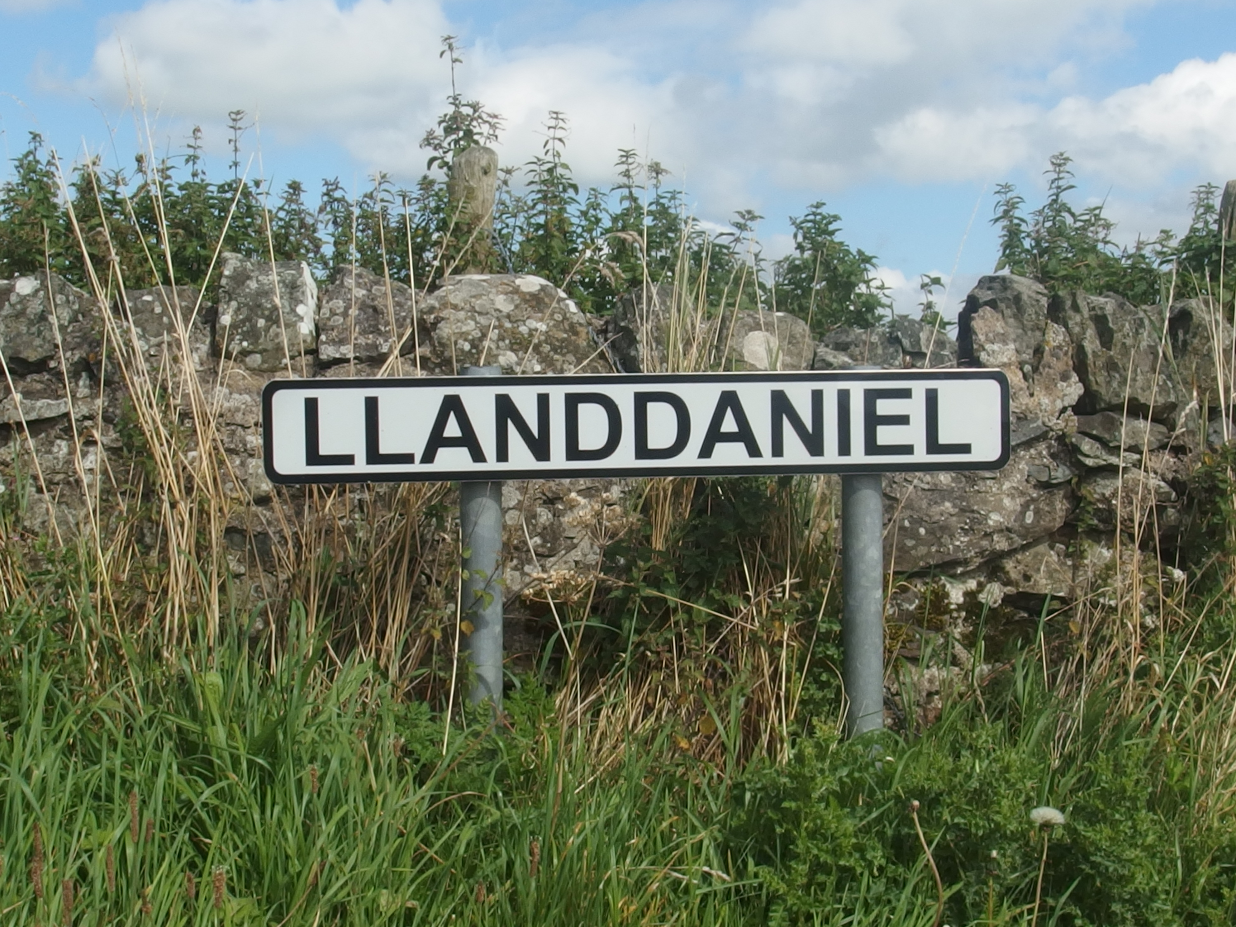 Un o arwyddion pentref Llanddaniel FAB